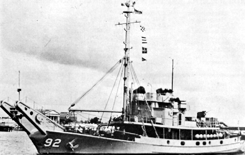 USS Yazoo (AN-92) underway circa 1959, location unknown. US Navy photo from "Jane's Fighting Ships 1959-60"